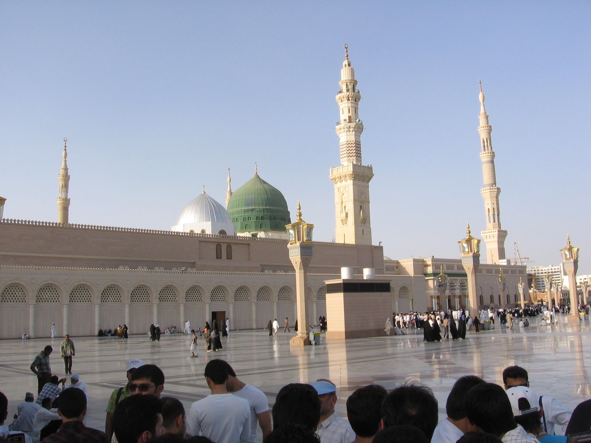 Al-Masjid al-Nabawi in Medina Saudi Arabia